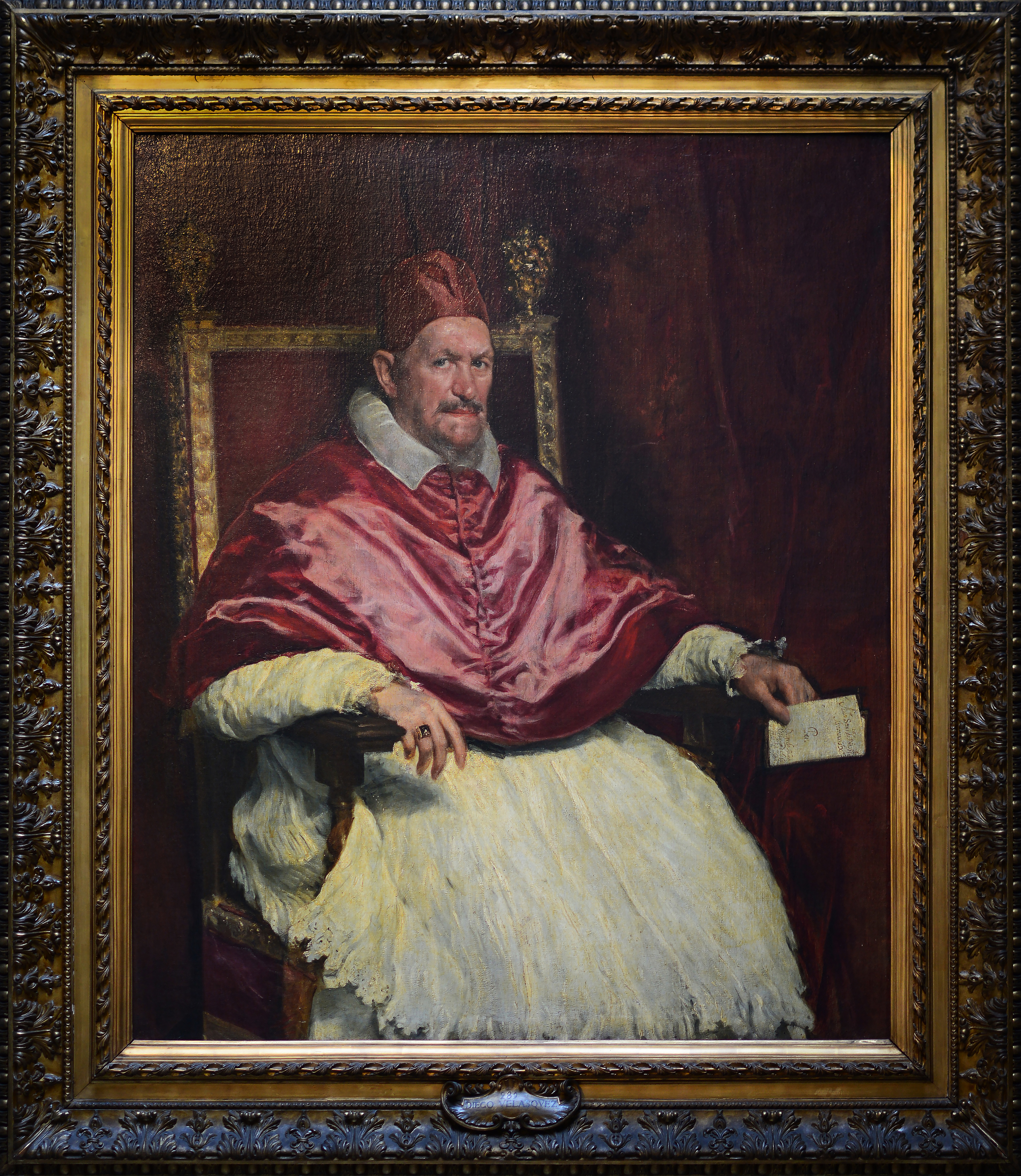 Portrait of Innocentius X by Diego Velázquez in Galleria Doria Pamphilj (Rome)